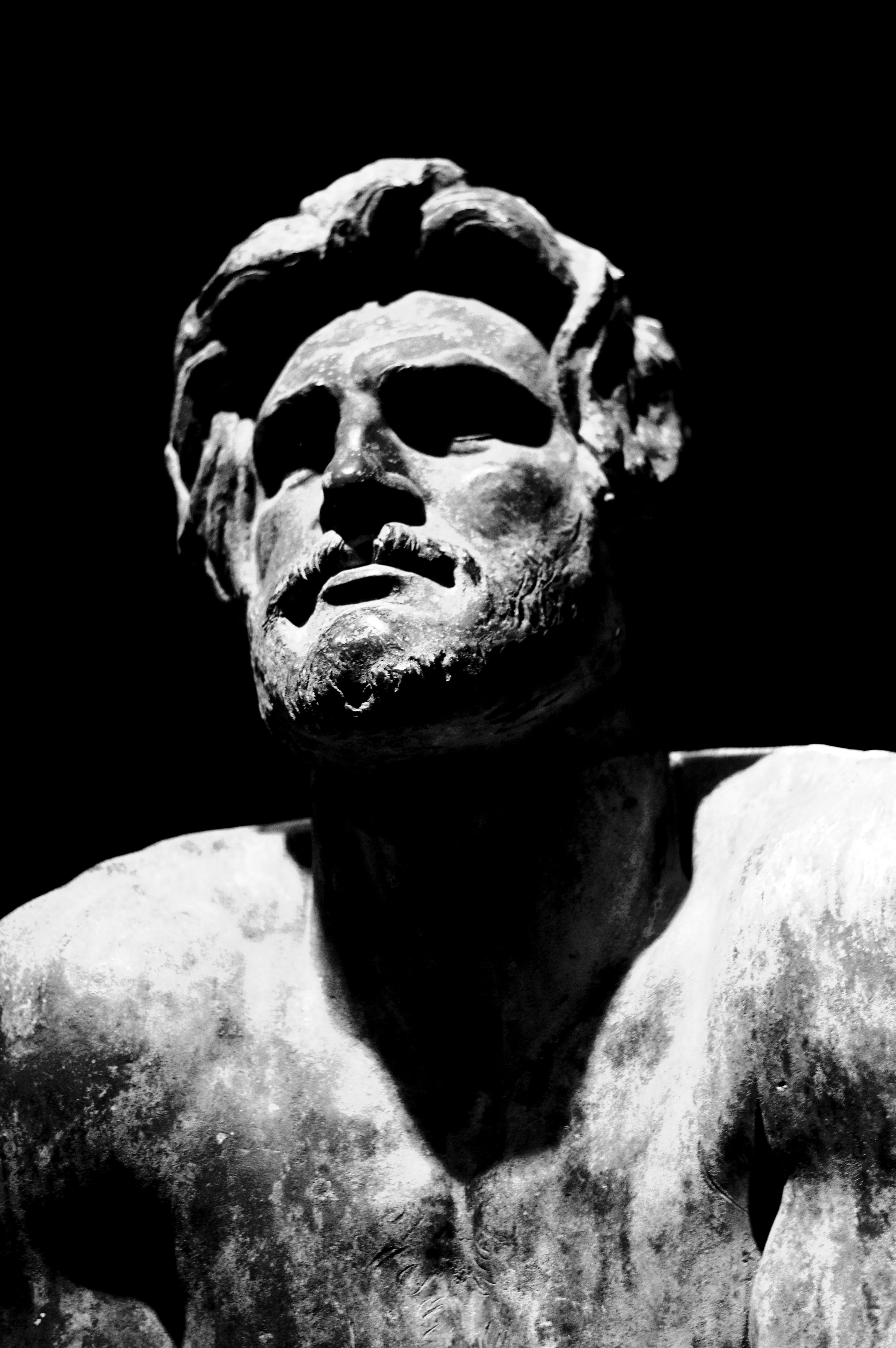 Bronze statue of bar Kokhba in sculpted in 1905 by. Currently in Eretz Israel Museum.